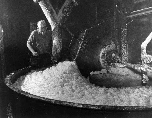 Local call number: c002311 Title: [A worker overseeing a papermaking machine at a paper mill near Pensacola] Date: 1947. Physical descrip: 1 photoprint : b&w ; 4 x 5 in. Series Title: (Commerce Collection.) Repository: State Library and Archives of Florida, 500 S. Bronough St., Tallahassee, FL 32399-0250 USA. Contact: 850-245-6700. Persistent URL: [1]